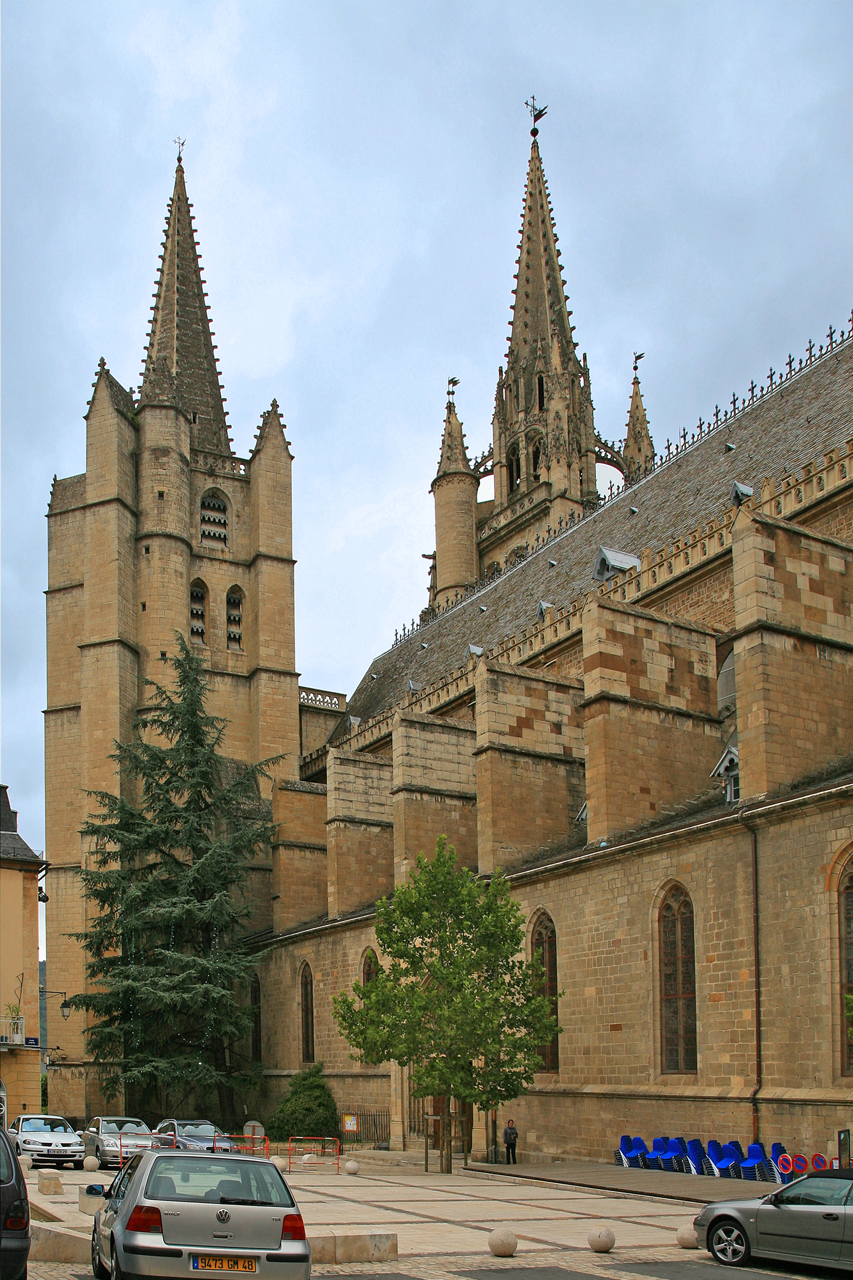 Gothic cathredal Notre-Dame-et-Saint-Privat in Mende, France.